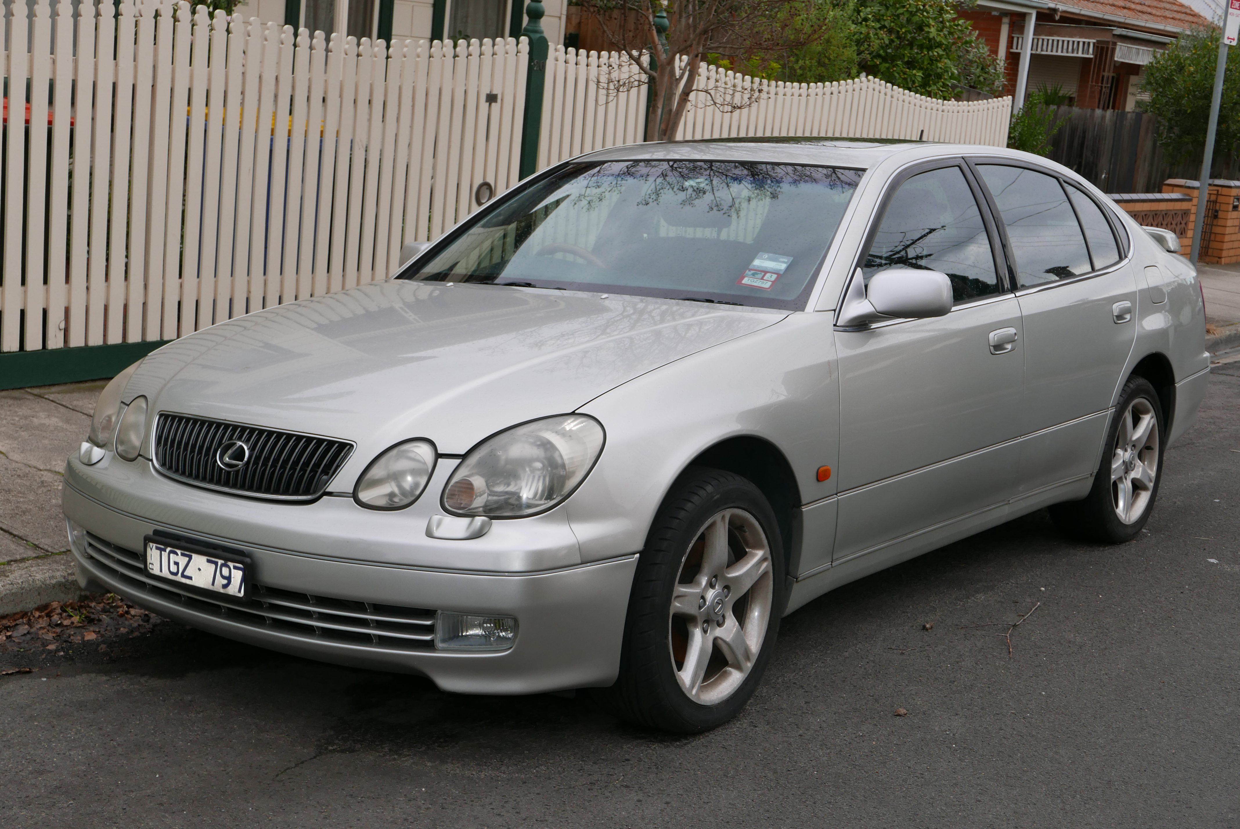 2002 Lexus GS 300 (JZS160R MY02) sedan. Photographed in Hawthorn, Victoria, Australia. Vehicle registration enquiry resultsJurisdictionVictoriaRegistrationTGZ797Chassis codeJT753JSG000163421Engine code2JZ0980042Compliance date2002-03Year of manufacture2002